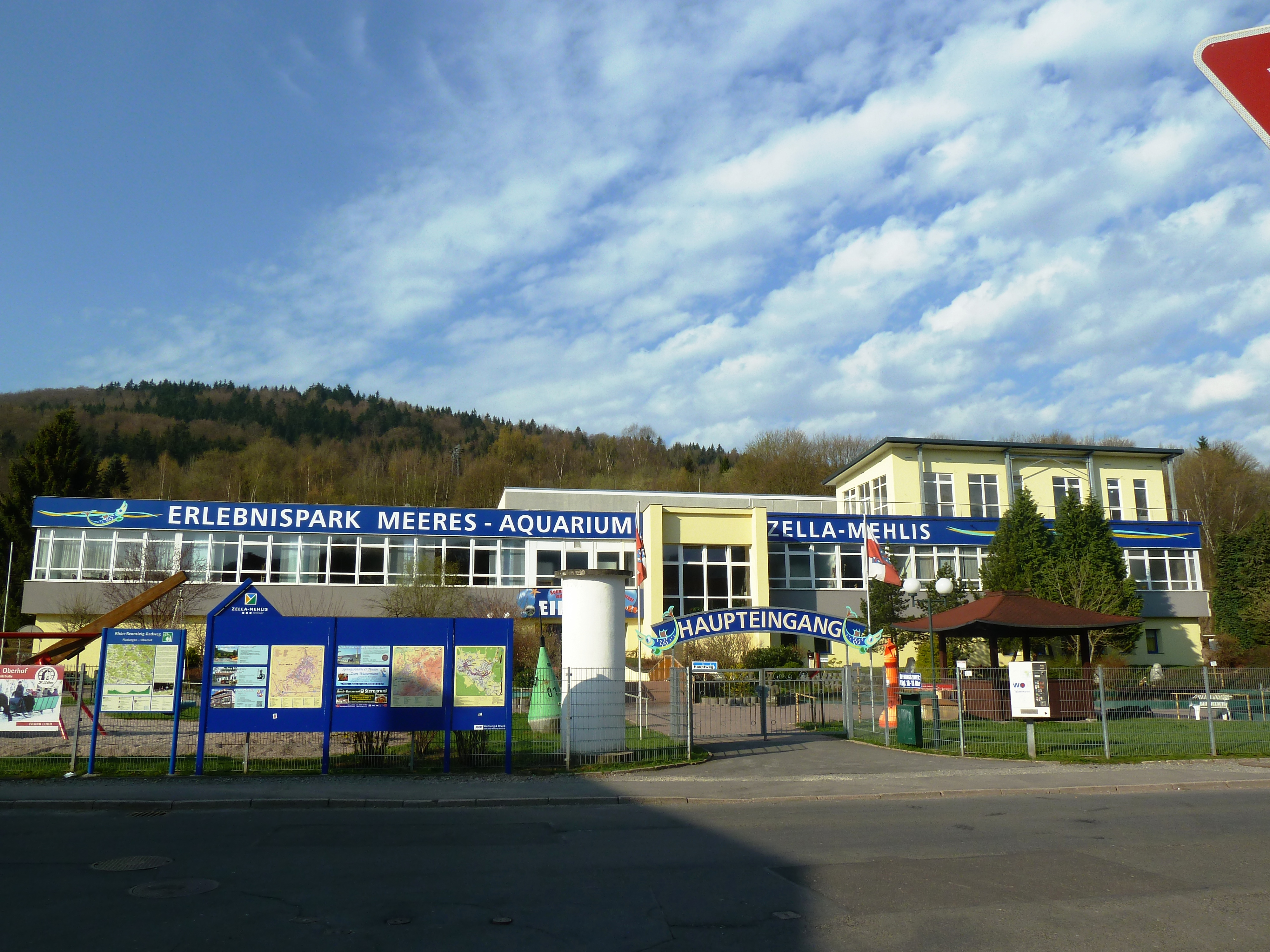 Aquarium Zella-Mehlis